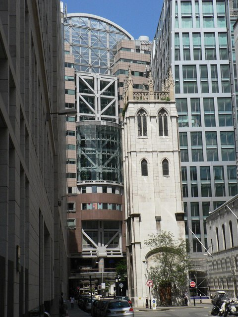 The remains of the church of St Alban, Wood Street, City of London. At the junction of Wood Street and Love Lane. Rebuilt by Christopher Wren in 1682-7, following the Great Fire. Since World War II only the tower remains.